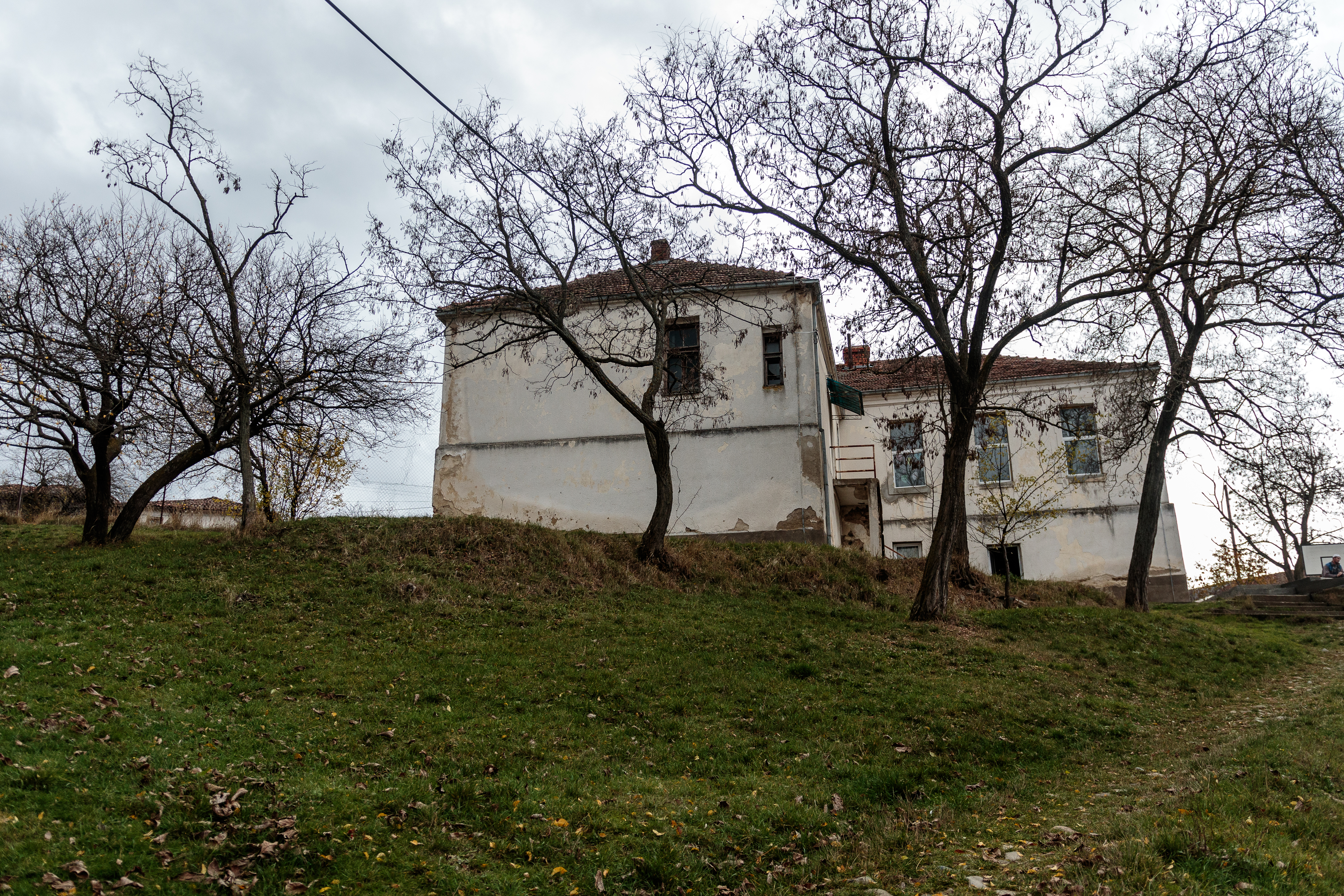 Primary school in the village of Robovo, Maleševija, Macedonia